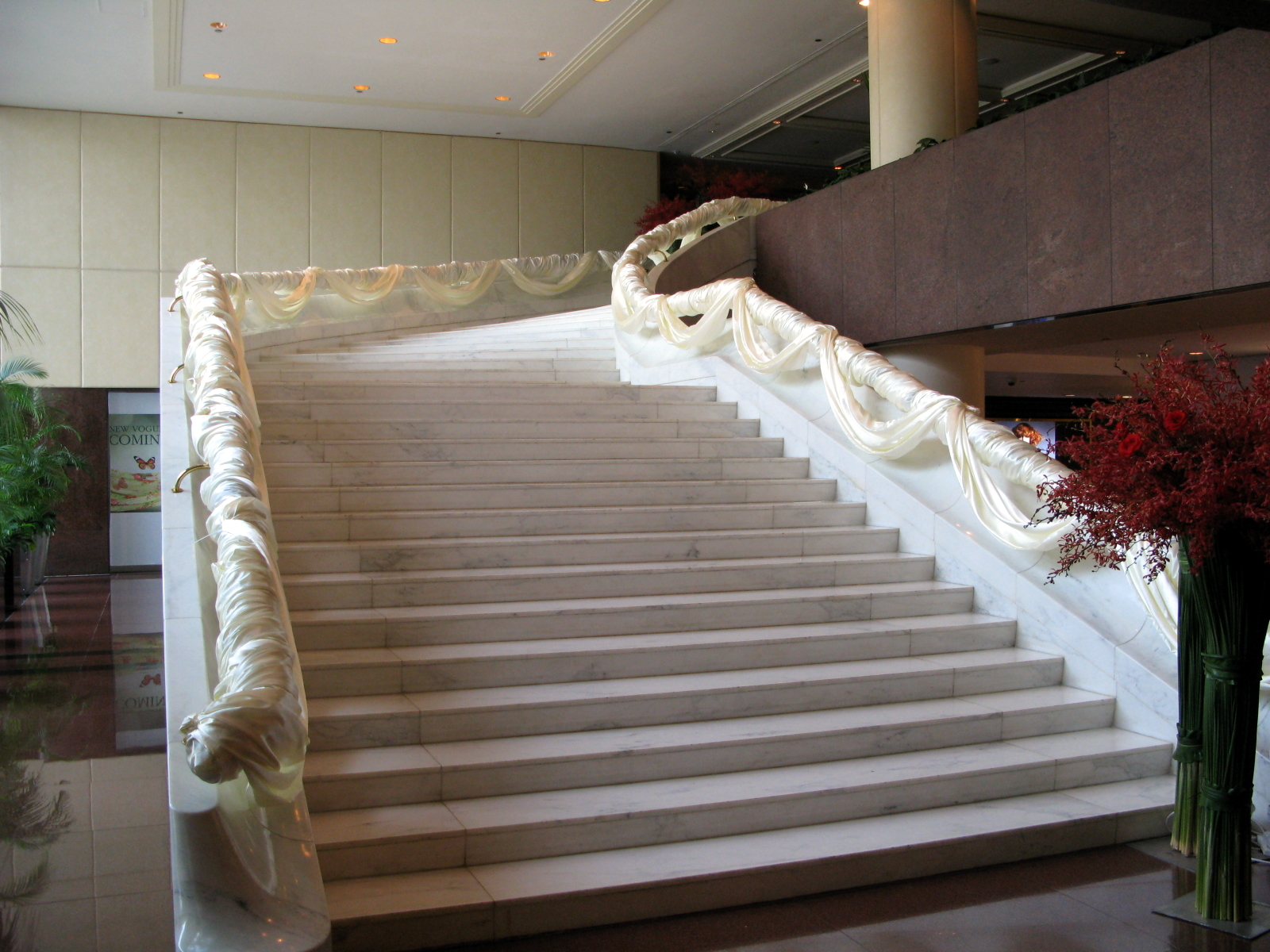 InterContinental Hong Kong Stair